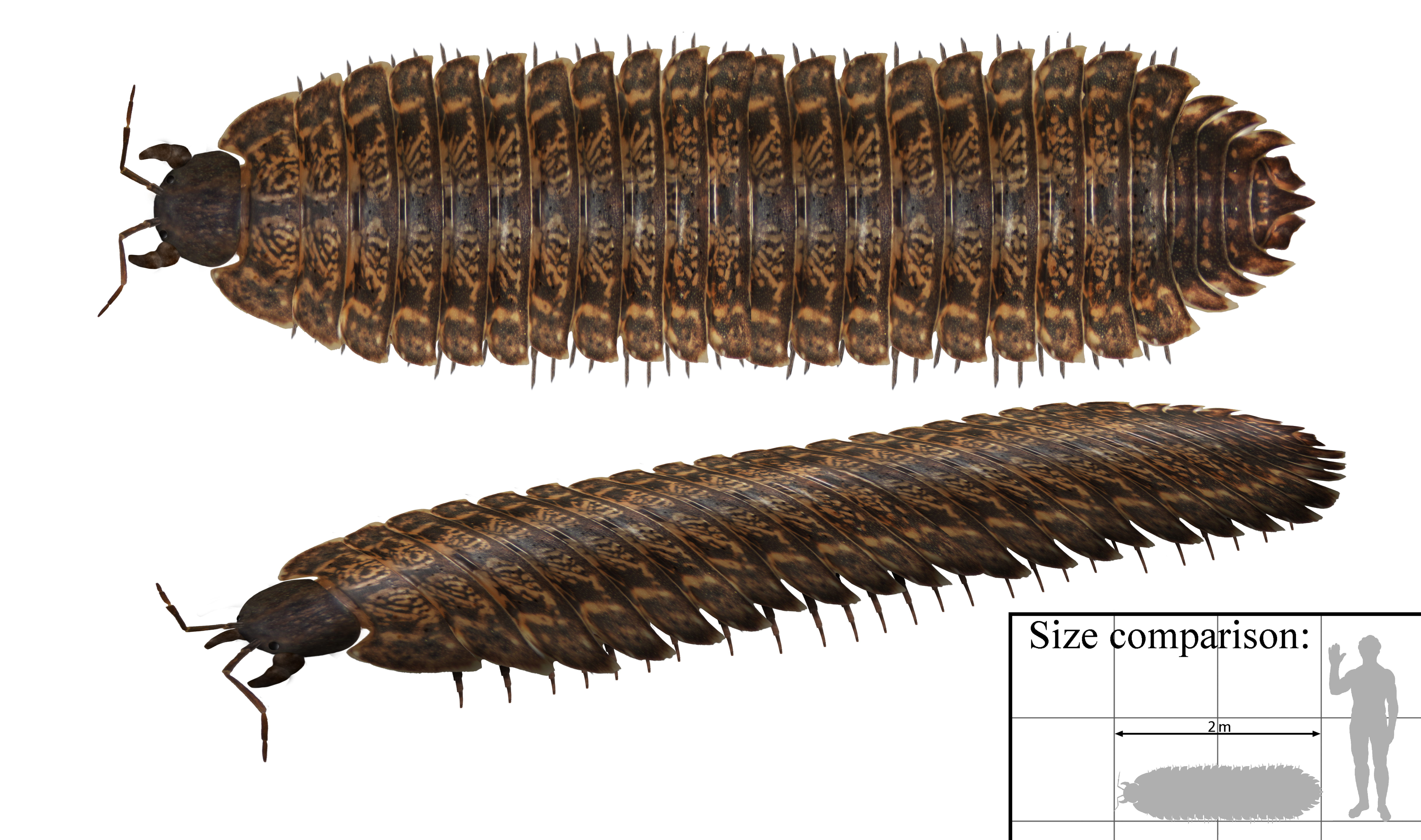 Artist’s impression of Arthropleura.